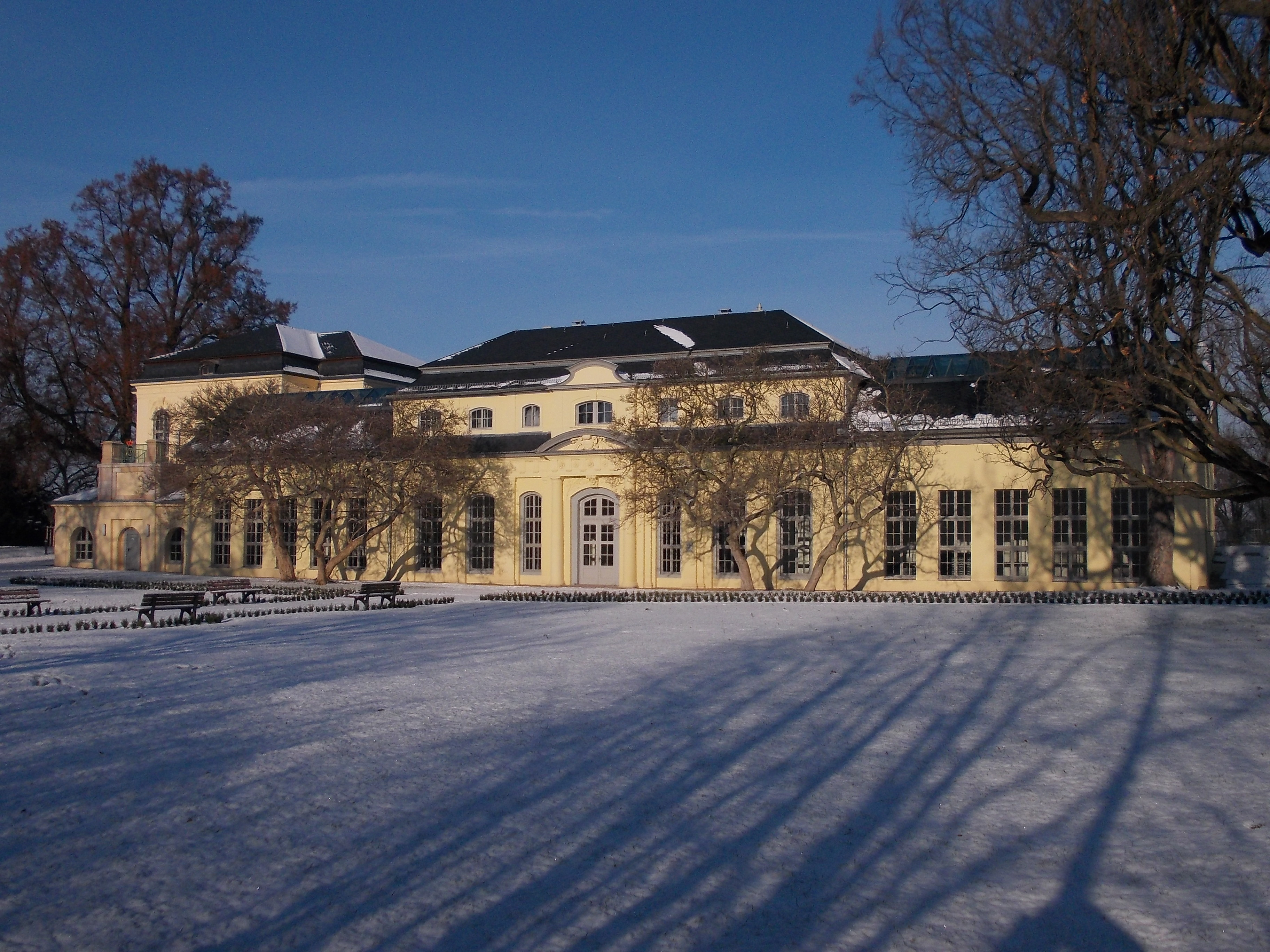 Orangery and tea-house (on the left) in the gardens of Altenburg Castle (Thuringia)